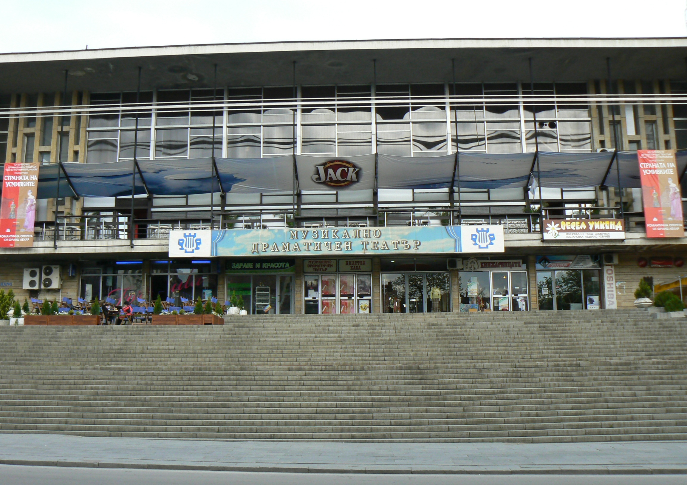 Musical theatre "Konstantin Kisimov" in Veliko Tarnovo, Bulgaria